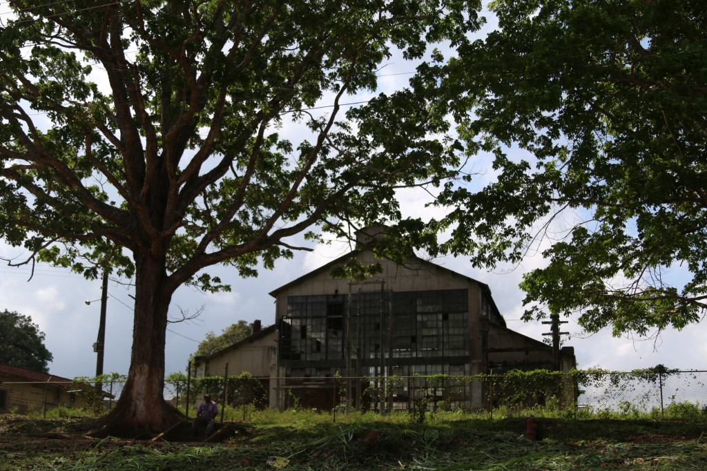 The main warehouse at Fordlandia.